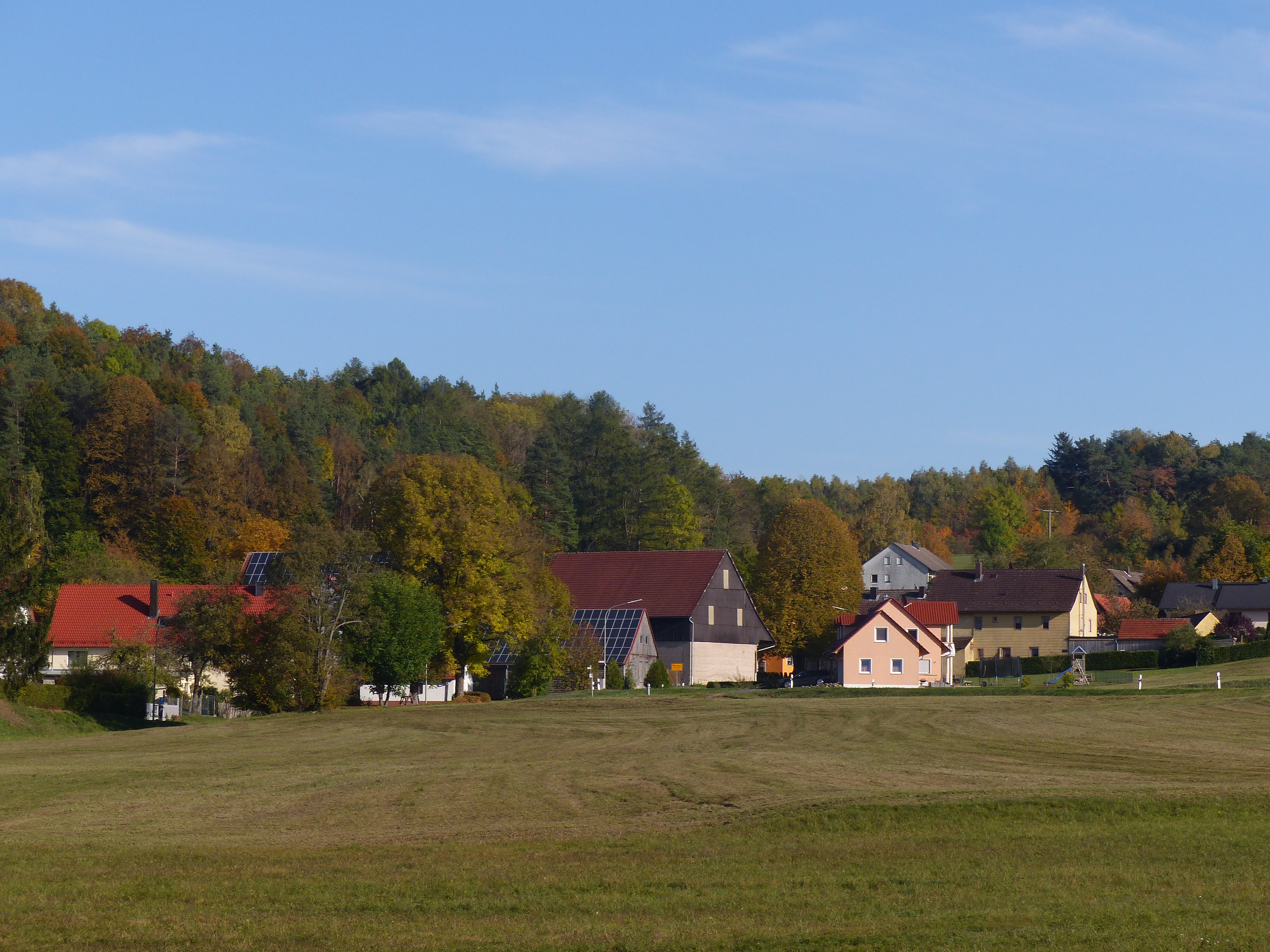 The village Willenberg, a district of the town of Pegnitz.